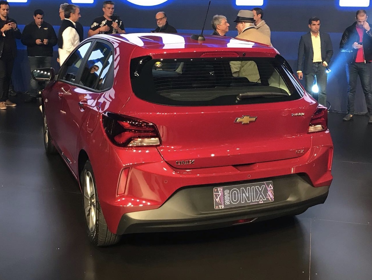 Chevrolet Onix second generation Brazil